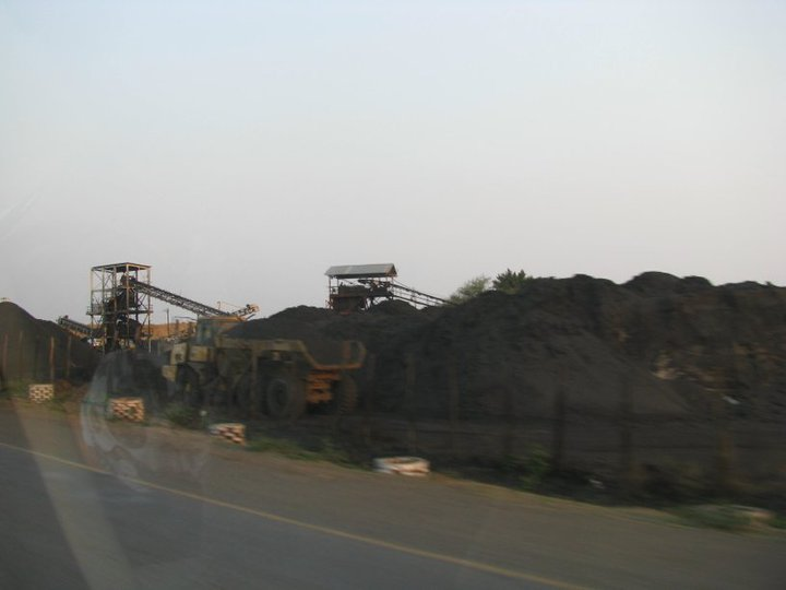 A view of the Moatize Coal Mine.